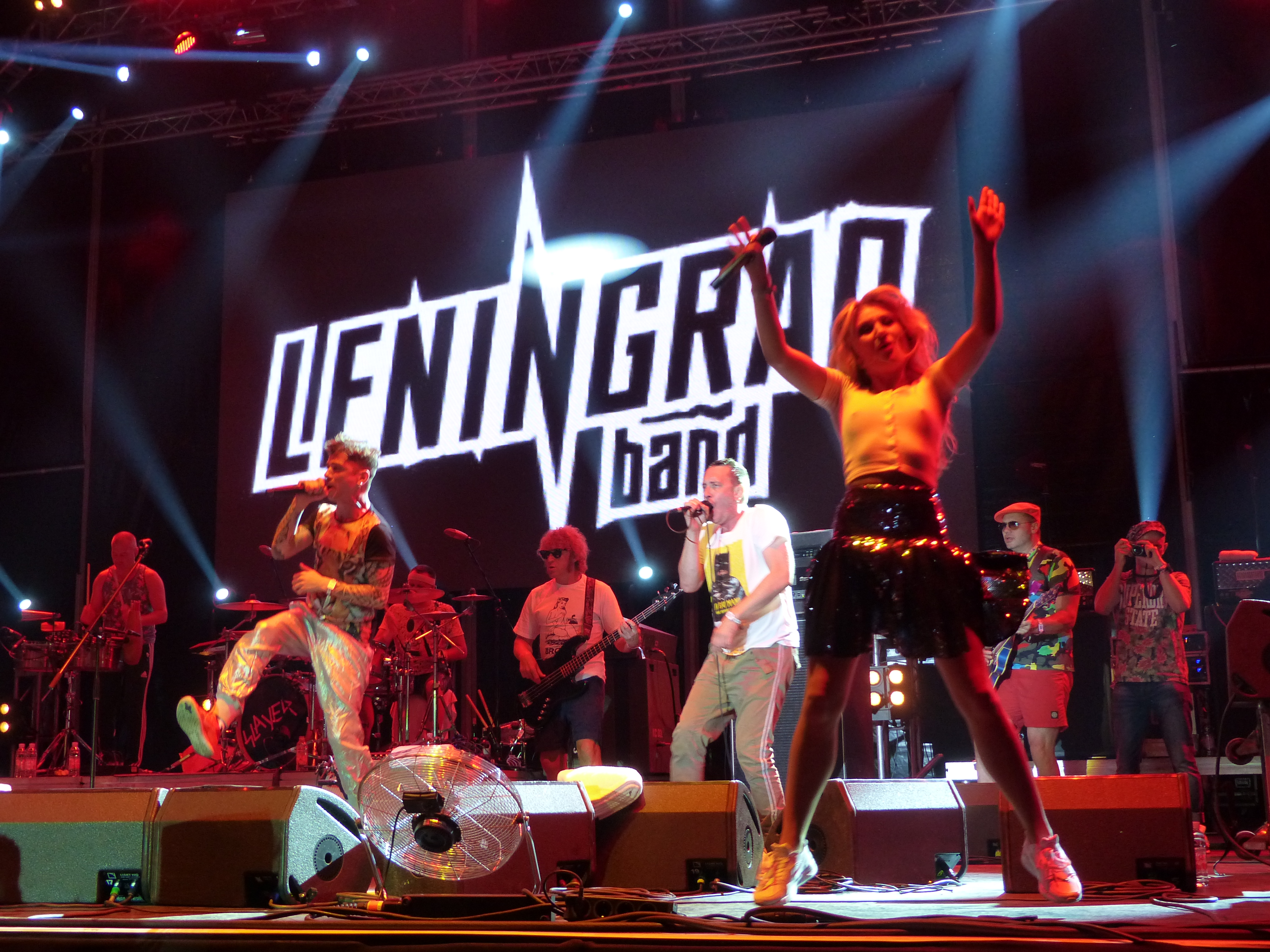 Taken on Saturday, the 13th of August, 2016. Leningrad (band) from Russia. World Music Stage, Sziget Festival, Budapest. Published in Yotel 296 DVD ISBN 978-615-5011-15-3 Sources